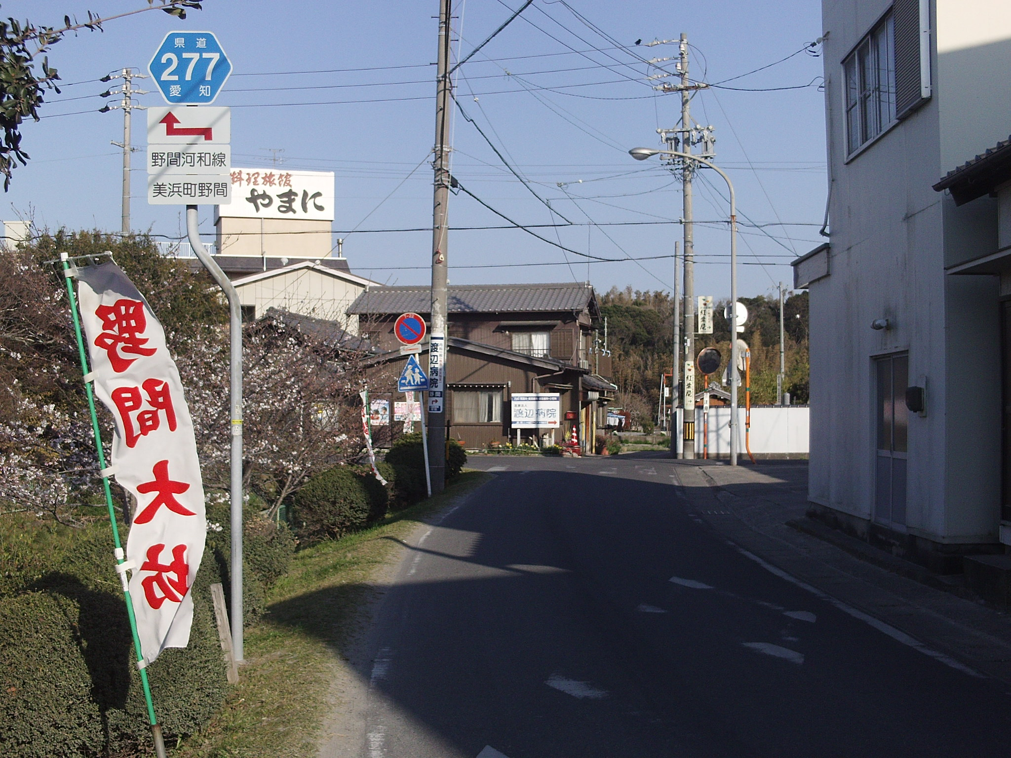 Aichi prefectural road No.277 in Noma, Mihama-cho, Chita-gun, Aichi.